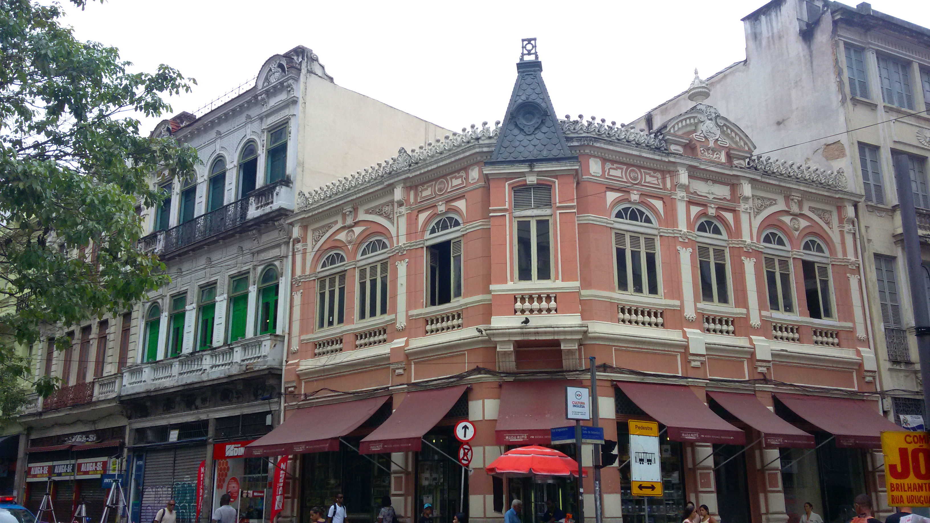 Historical Casa Cavé coffee shop in central Rio de Janeiro, Brazil